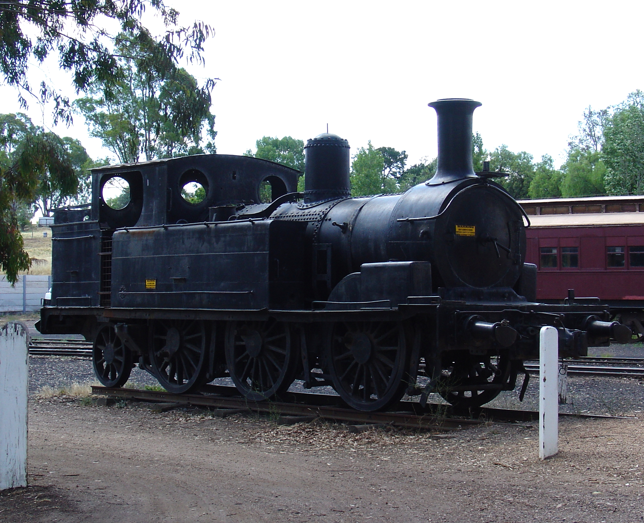 Static Victorian Railways 0-6-2 E class tank engine at Maldon, Victoria, railway station